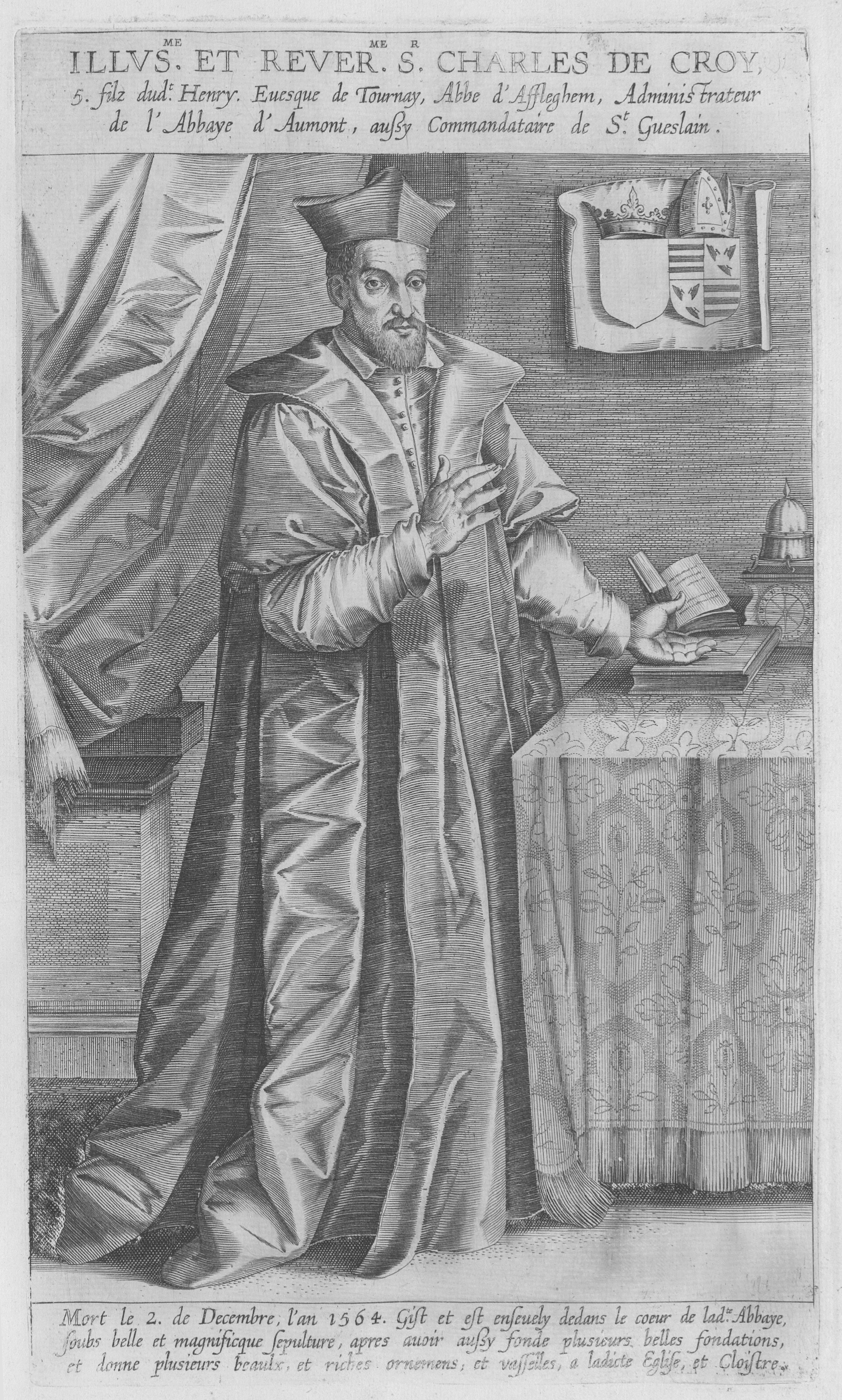 Engraving depicting Charles II of Croÿ